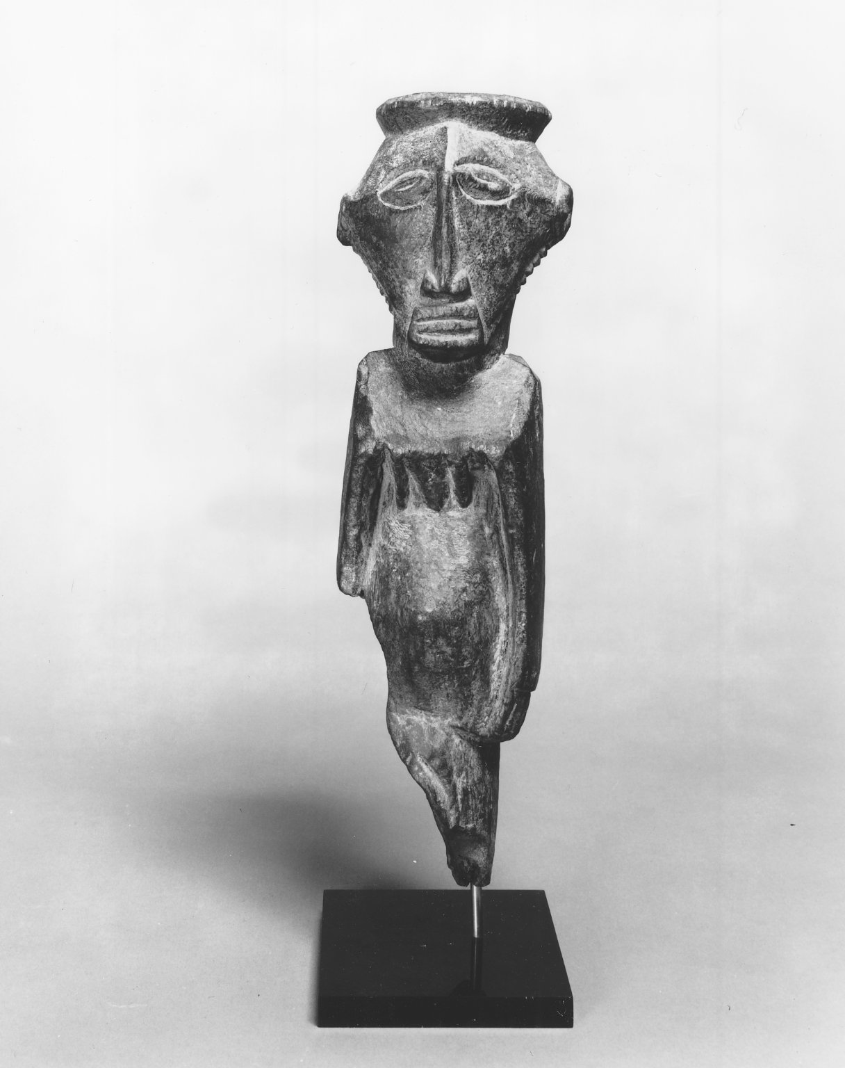 Standing Figure